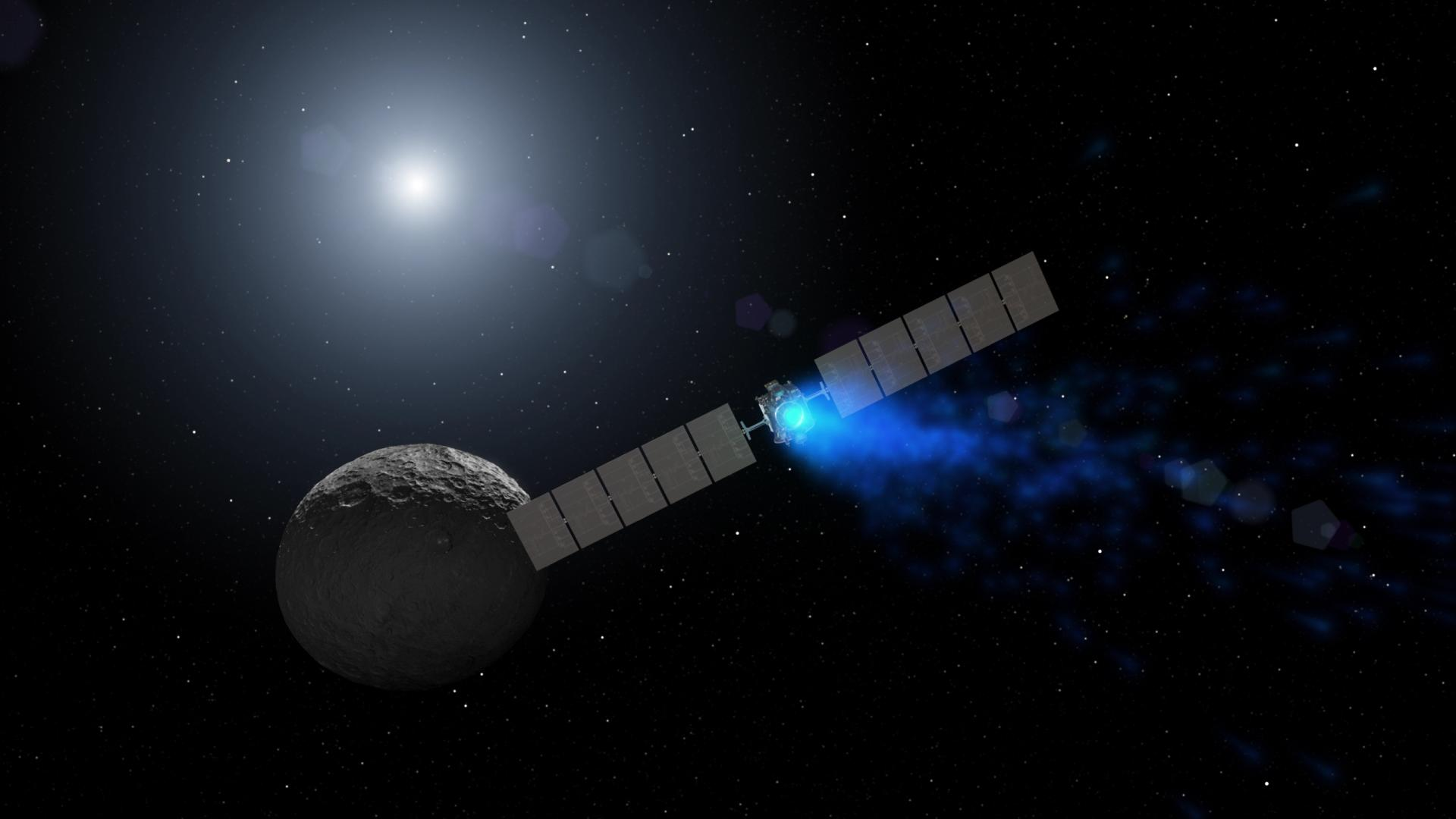 This artist's rendering shows NASA's Dawn spacecraft maneuvering above Ceres with its ion propulsion system. Dawn arrived into orbit at Ceres on March 6, 2015, and continues to collect data about the mysterious and fascinating world. The mission celebrated its ninth launch anniversary on September 27, 2016.